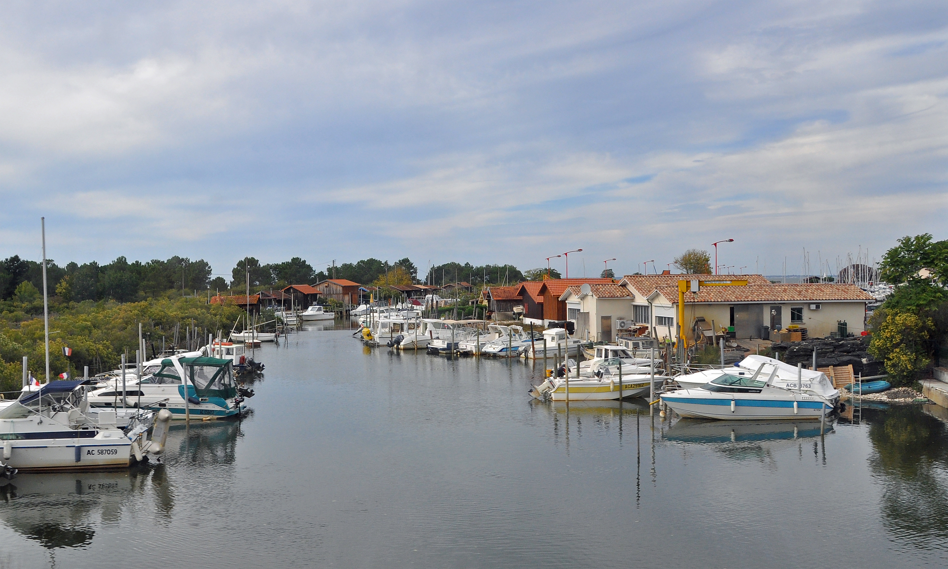 Gujan-Mestras (département de la Gironde, France): marina of La Hume